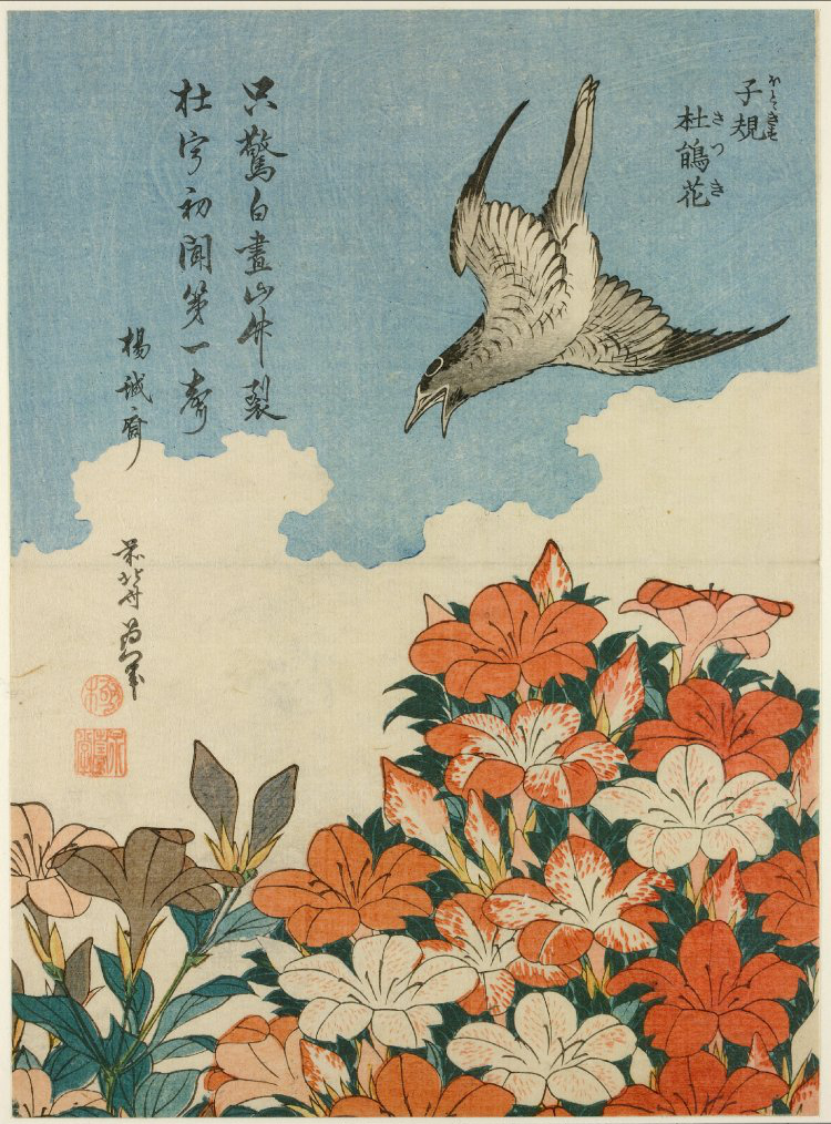 Ukiyo-e woodblock print of a cuckoo and azaleas by Japanese artist Katsushika Hokusai (1828)